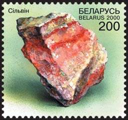 Stamp of Belarus